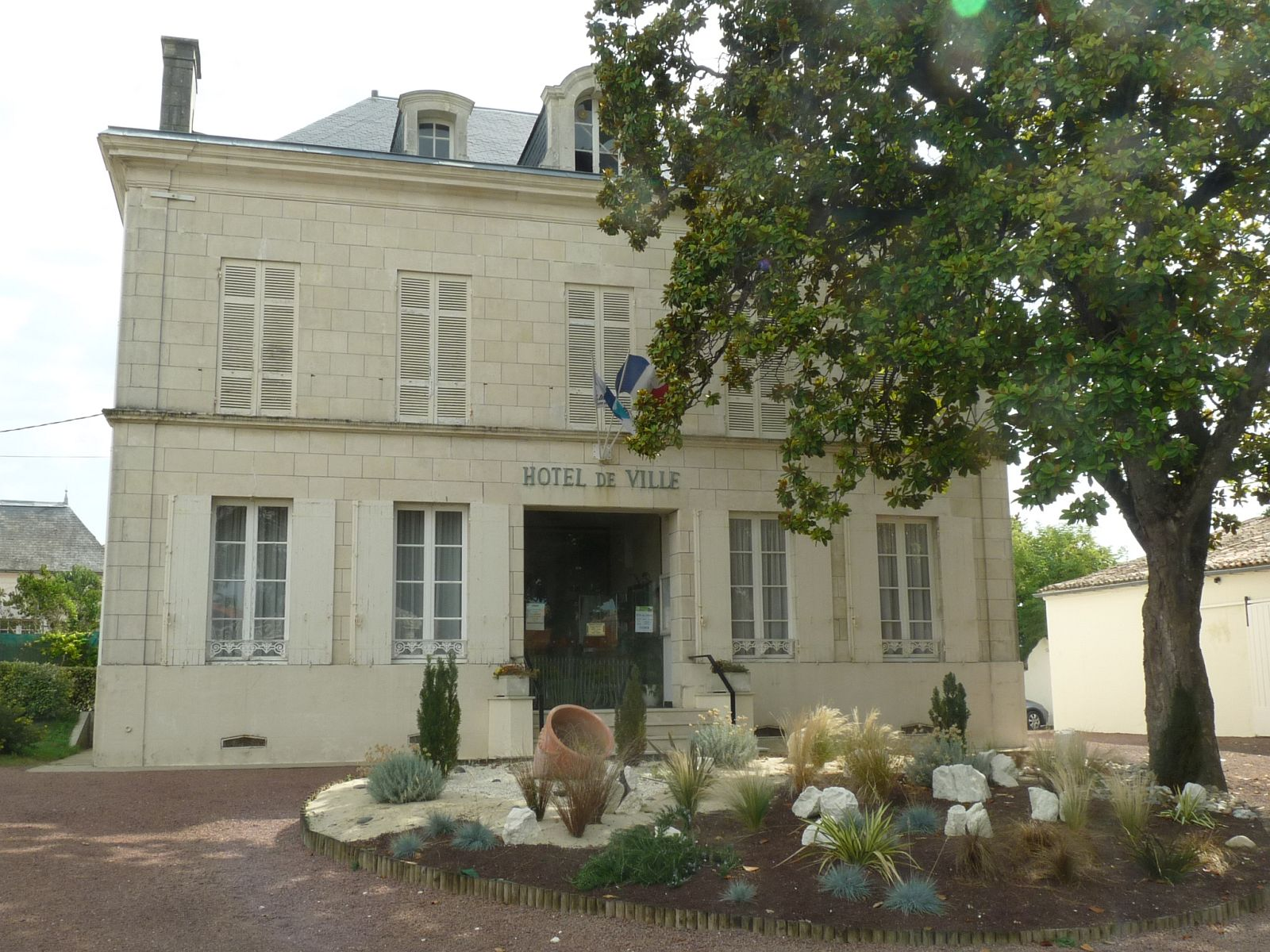 town hall of Cozes, Charente-Maritime, SW France